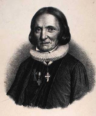 Rasmus Møller - Danish bishop